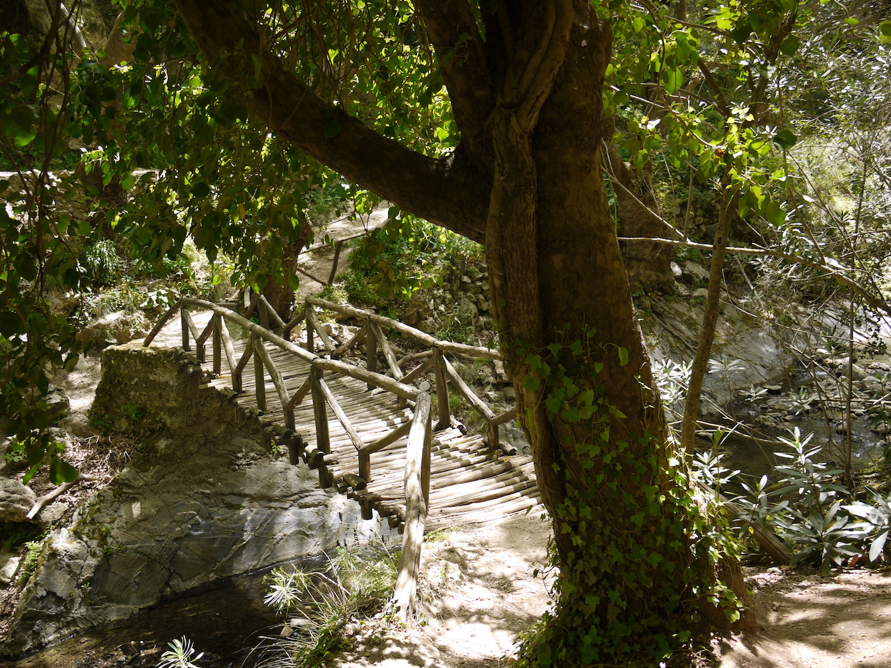 This is a photography of Natura 2000 protected area with ID GR4330004